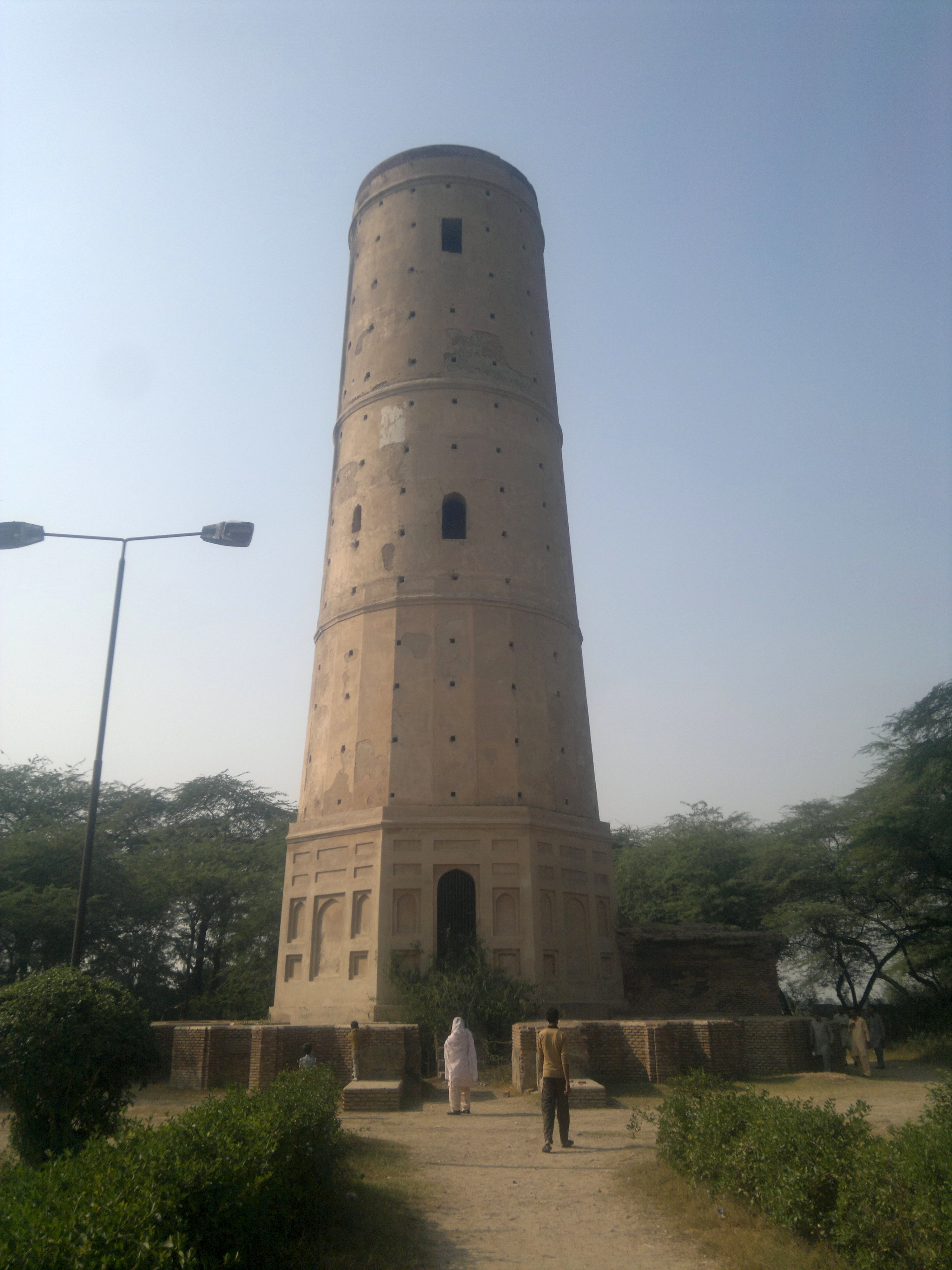 Hiran Minar and Tank This is a photo of a monument in Pakistan identified as the PB-145